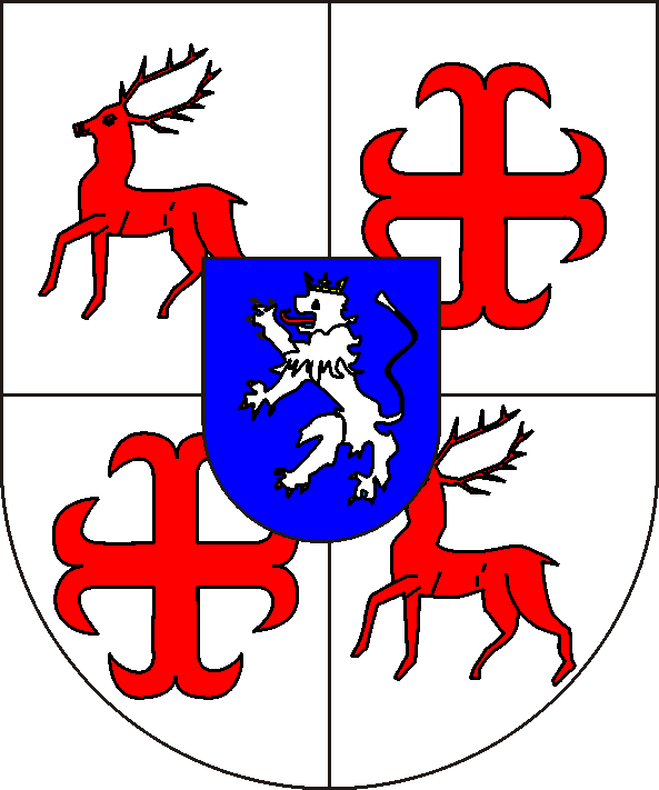 coat of arms